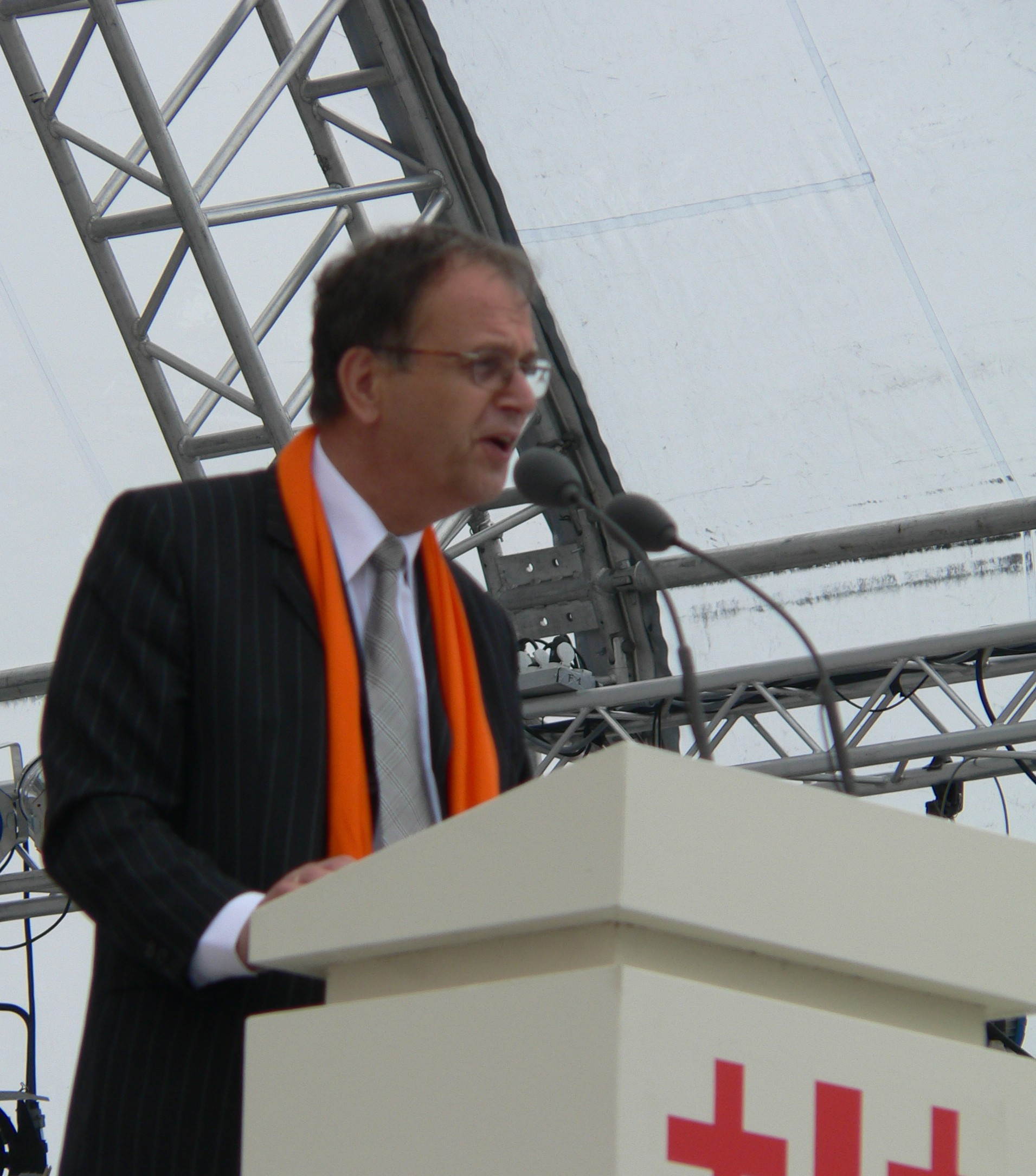 Reinhard Höppner 2007